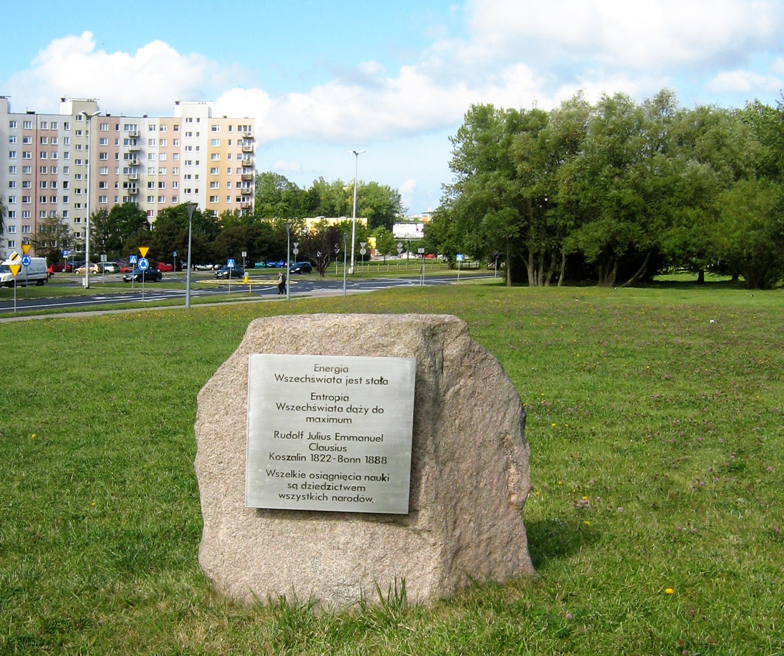 Memorial stone to Rudolf Clausius next to Koszalin University of Technology